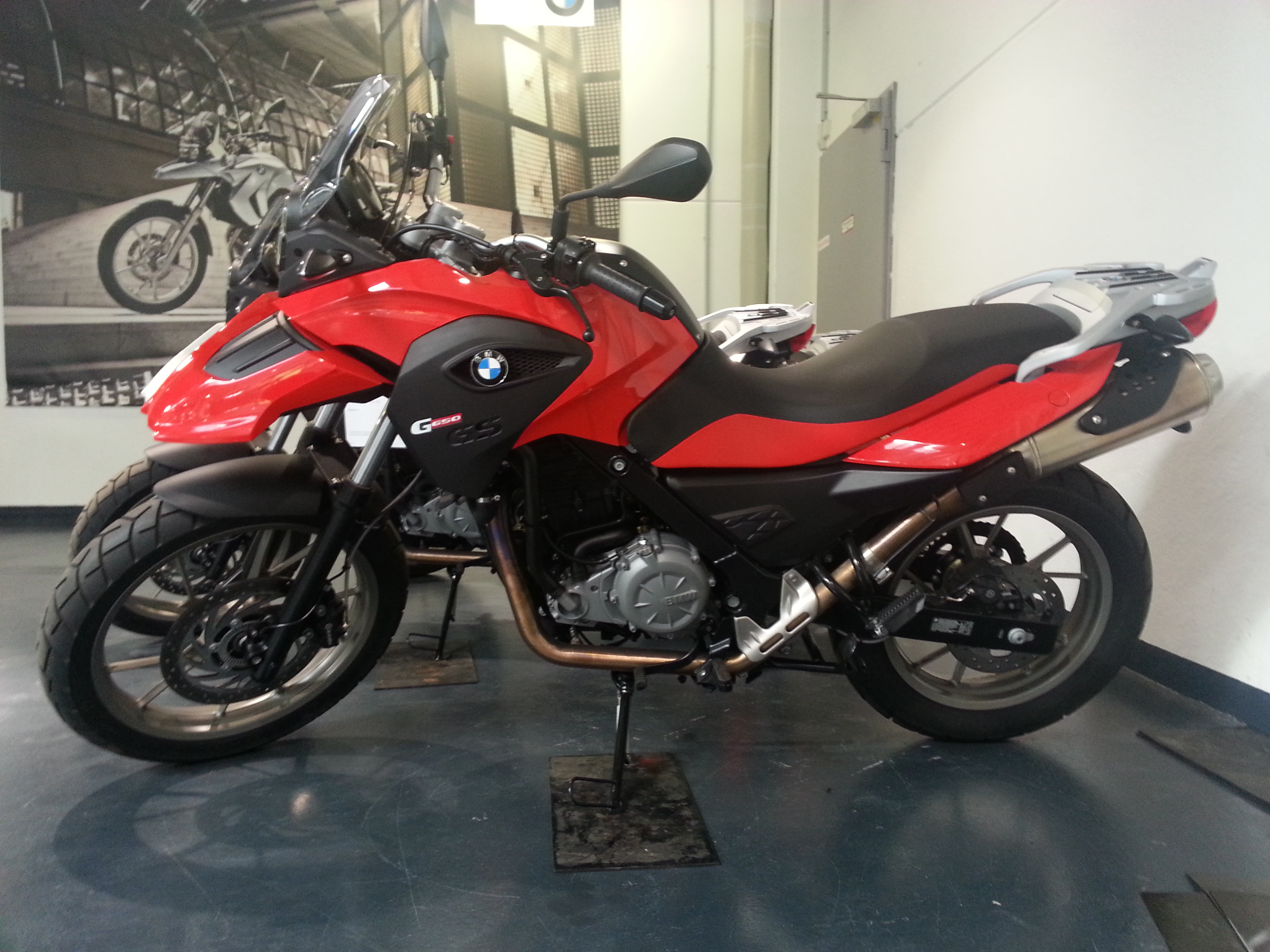 Motorcycle, manufacturer BMW, Modell G650GS, 2013